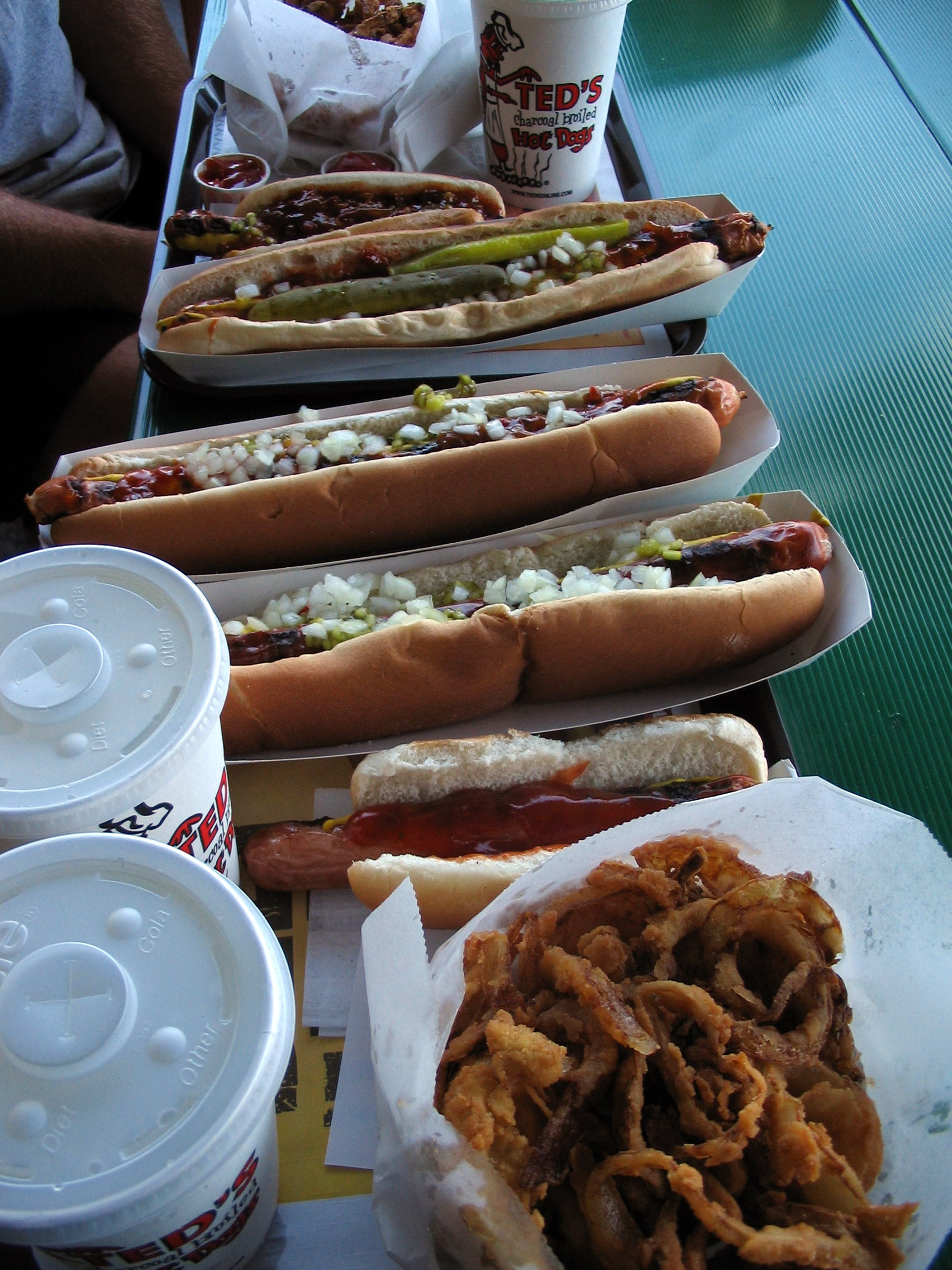 A sampling of the hot dogs offered at Ted's restaurant.